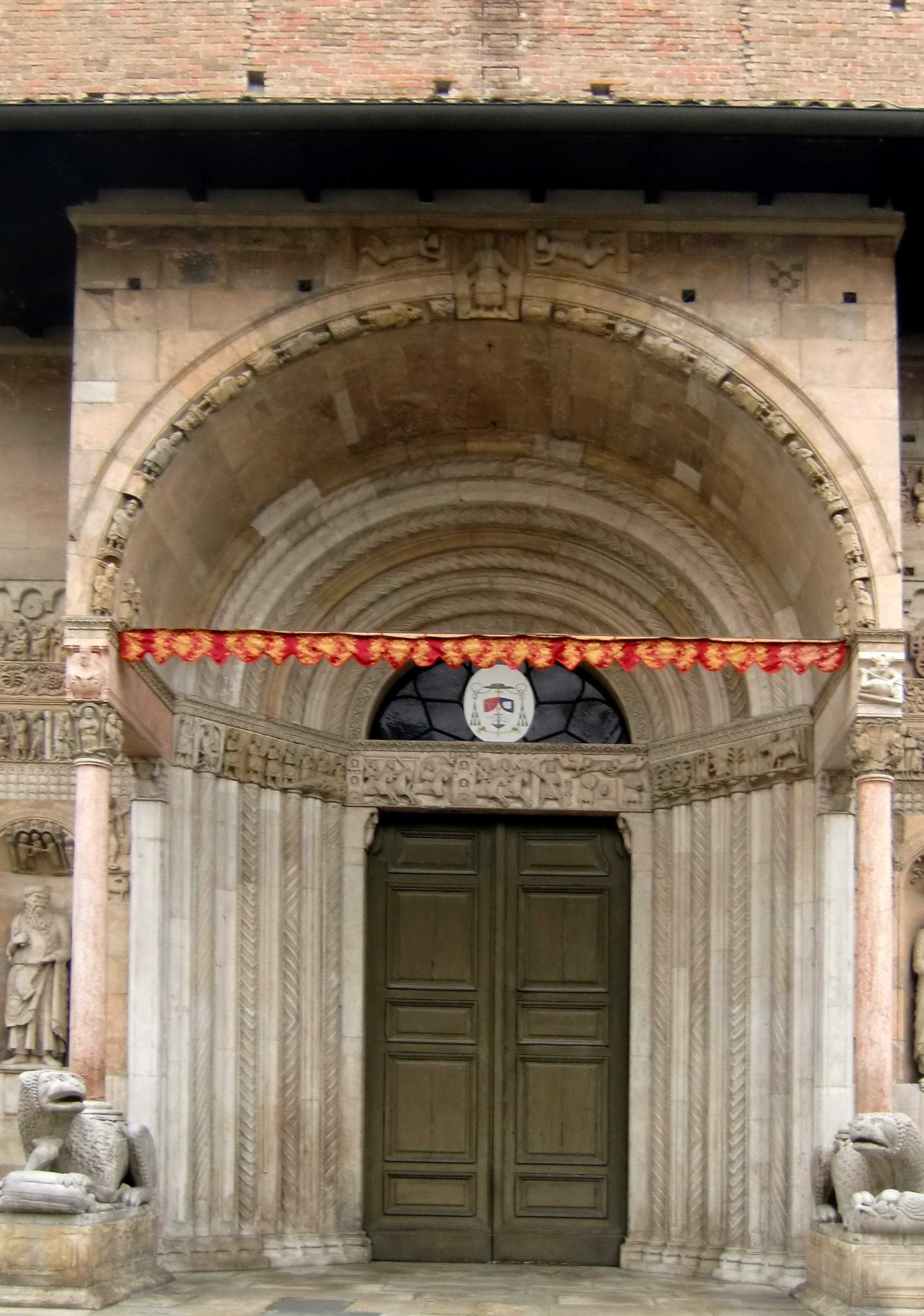 The main portal of the cathedral, end of XII - beginning of XIII century, Duomo di Fidenza